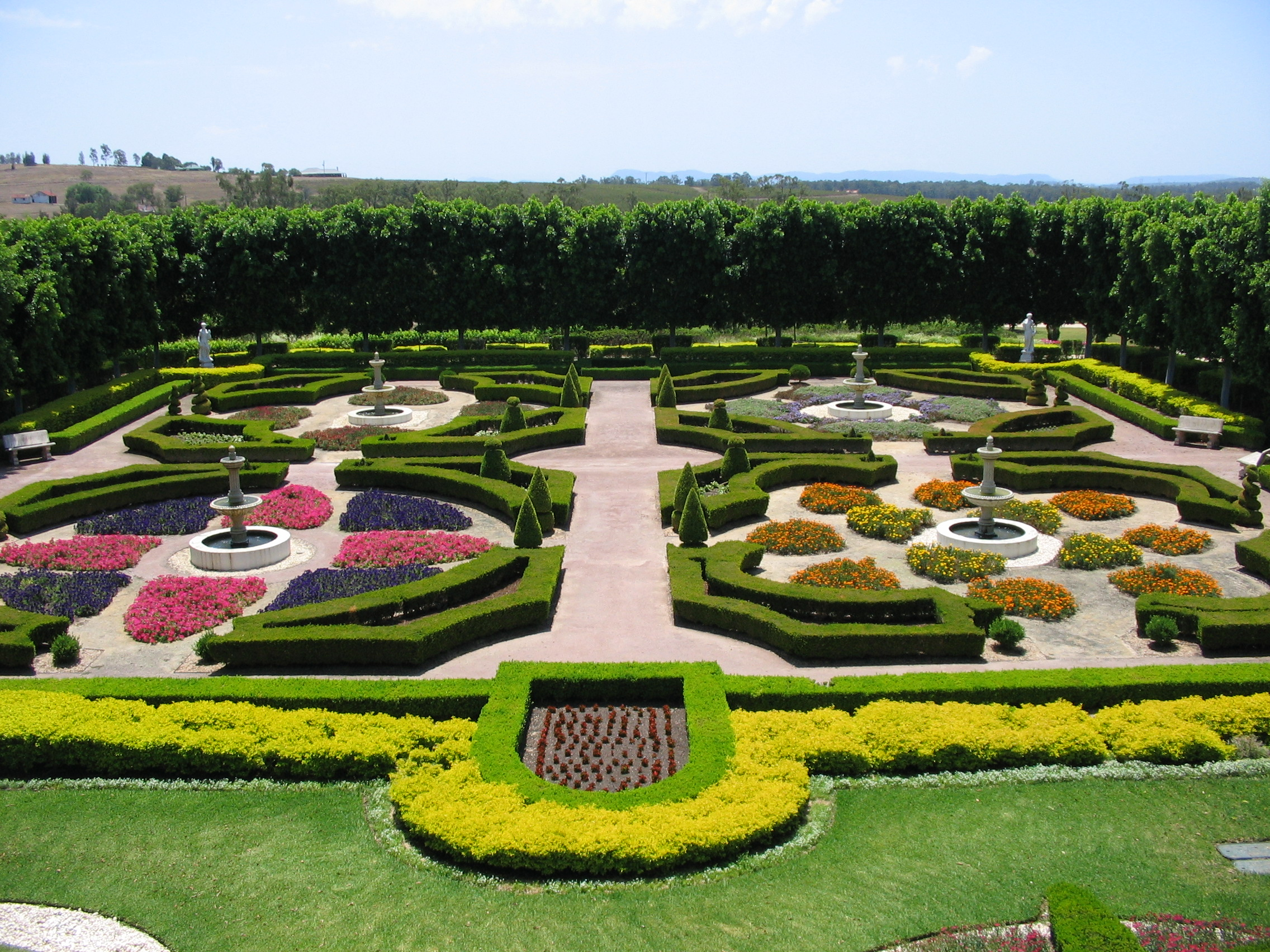 04. The Border Garden - Taken on the Saturday, 3rd February 2007 at 1:04pm.